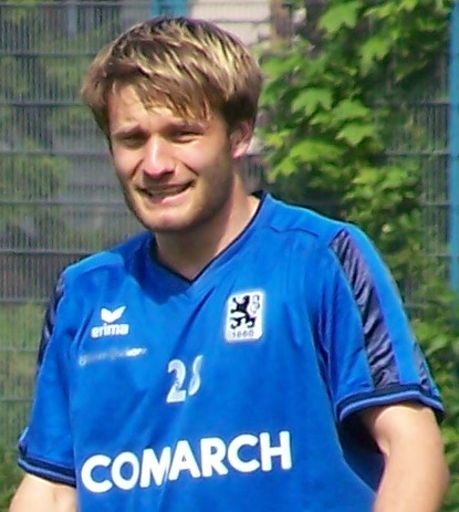 Daniel Halfar, 1860 München, training